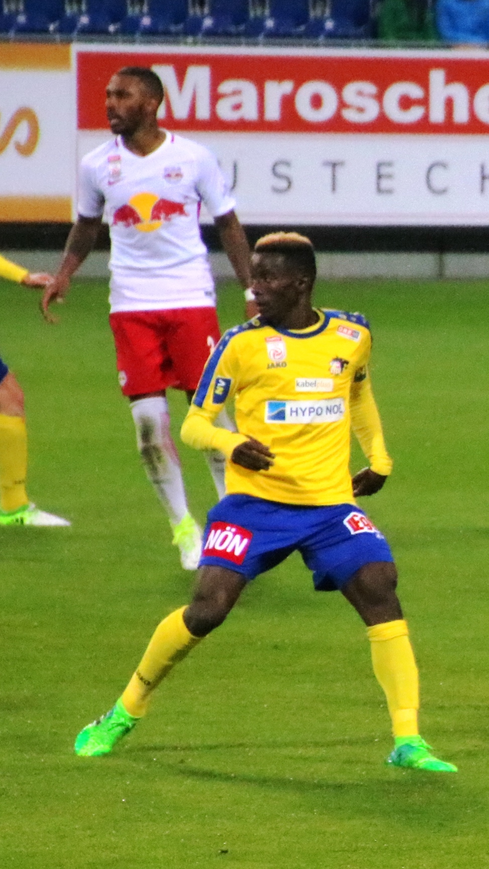 Austrian Bundesliga league match 30rd round